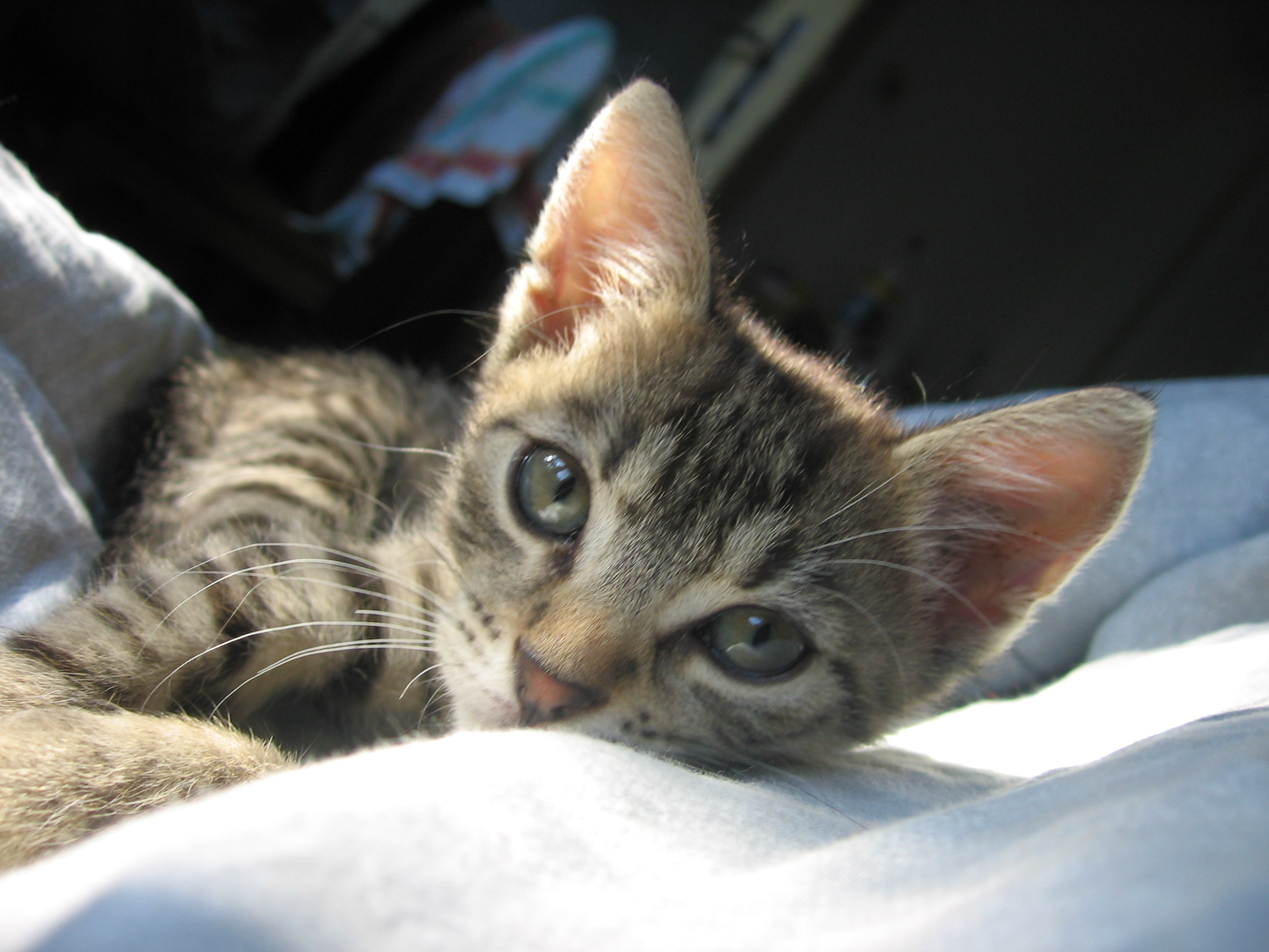 Satisfied cat